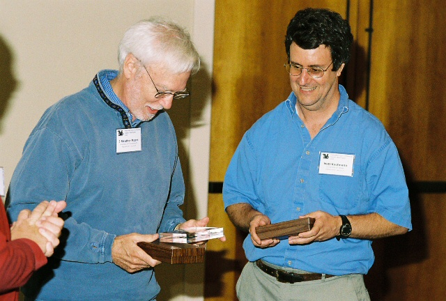 FLoC2006: Matt Kaufmann presents J Strother Moore with one of the special congratulatory awards from the ACL2 community in honor of the ACM Software Systems Award for "A Computational Logic."